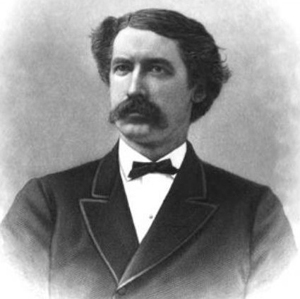 Thomas J. Creamer, Congressman from New York